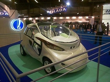 Electric Vehicle: Lada Rapan (International Motor Show "Paris-98")